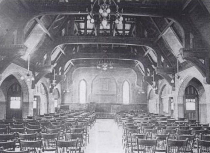 Toronto Bible Training School Interior 1898